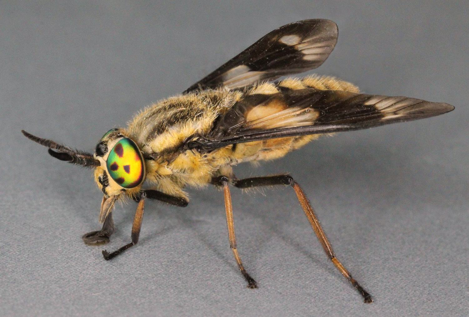 Chrysops relictus, Fenn's Moss, North Wales, July 2010